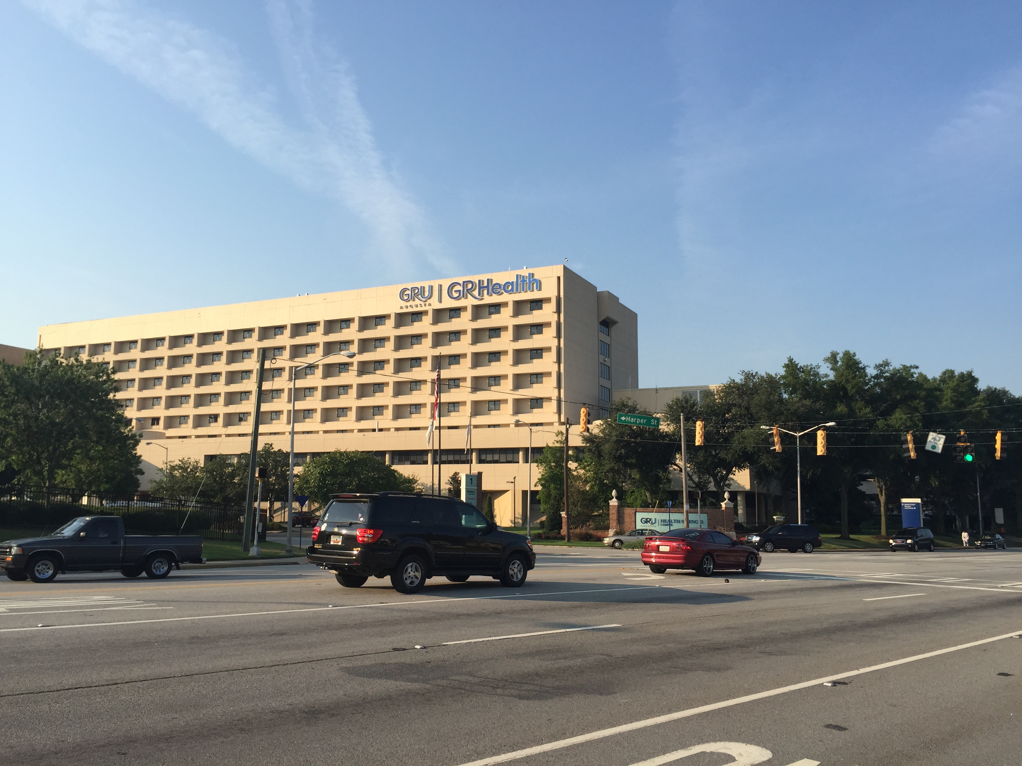 Georgia Regents Medical Center, Augusta, GA